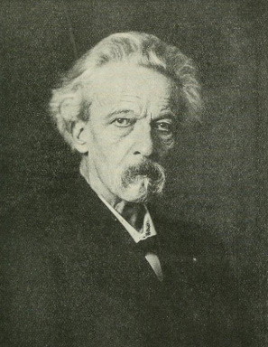 Dutch composer and teacher Samuel de Lange jr. (1840—1911), the head of Stuttgart conservatory. Picture from the book of Eugène d'Harcourt "La musique actuelle en Allemagne et Autriche-Hongrie. Conservatoires, Concerts, Théâtres" (Paris, 1908)